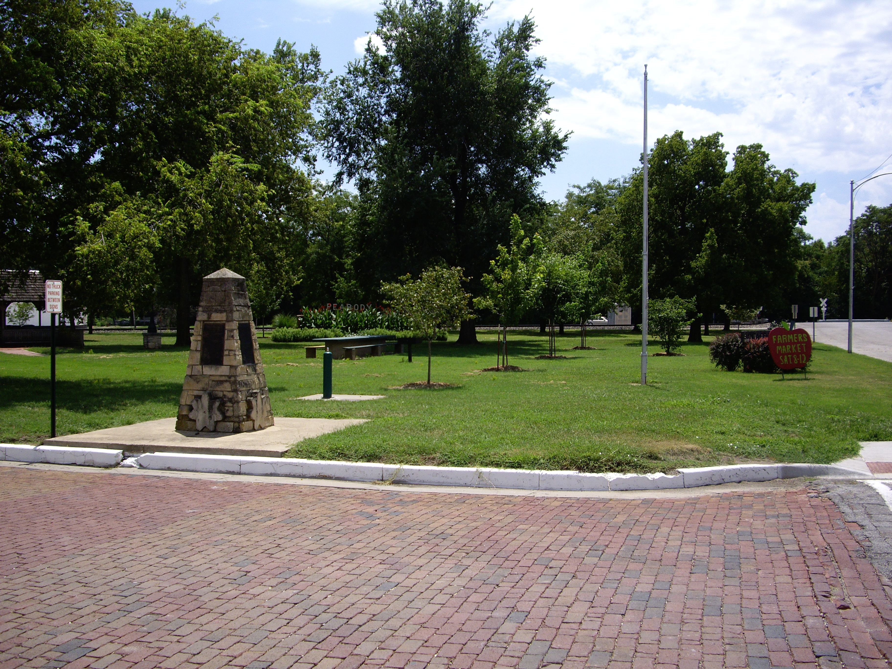 Historic 1974 Mennonite Centennial Memorial Monument and Santa Fe Park, southeast corner of Walnut St and 1st St, Peabody, Kansas, 666866, USA. Looking south. Photo by Steve Meirowsky on August 4, 2010. Note 1: A threshing stone was cut and placed on 4 sides of this monument. Note 2: In the foreground is a brick street typical in most of Peabody.